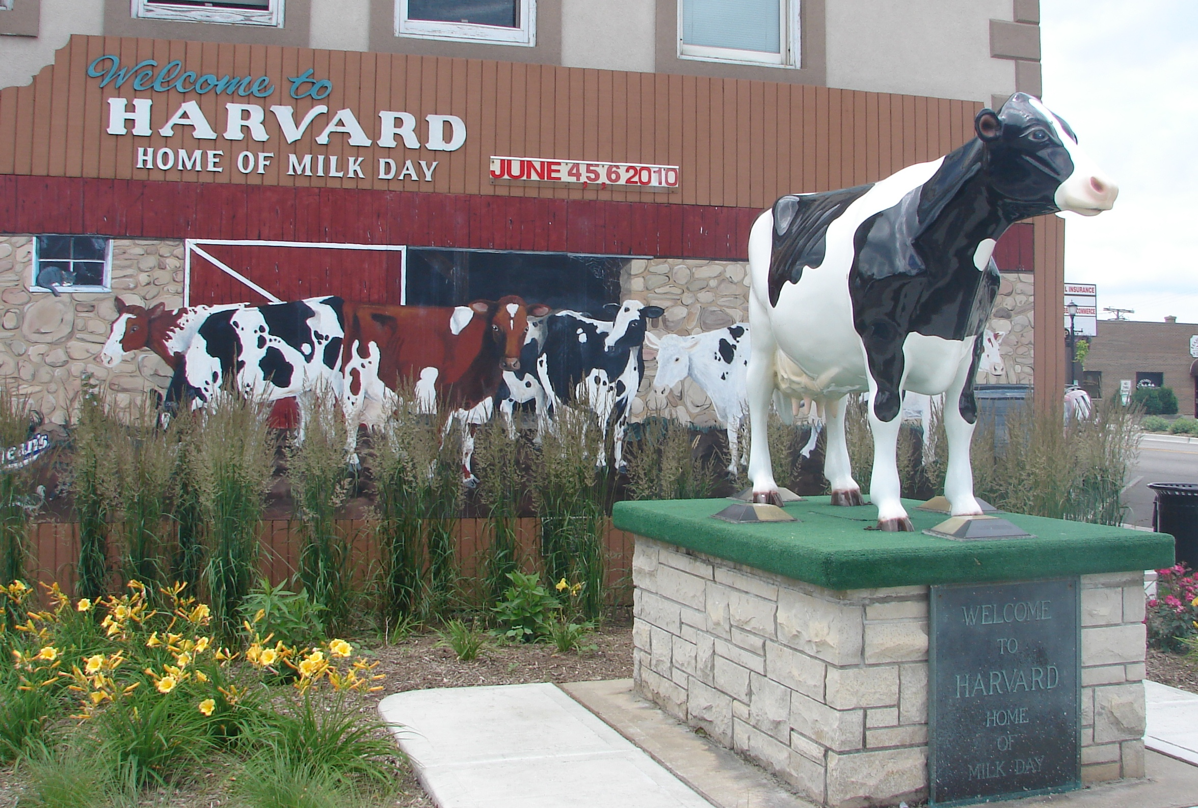 photo of cow statue in Harvard Ill